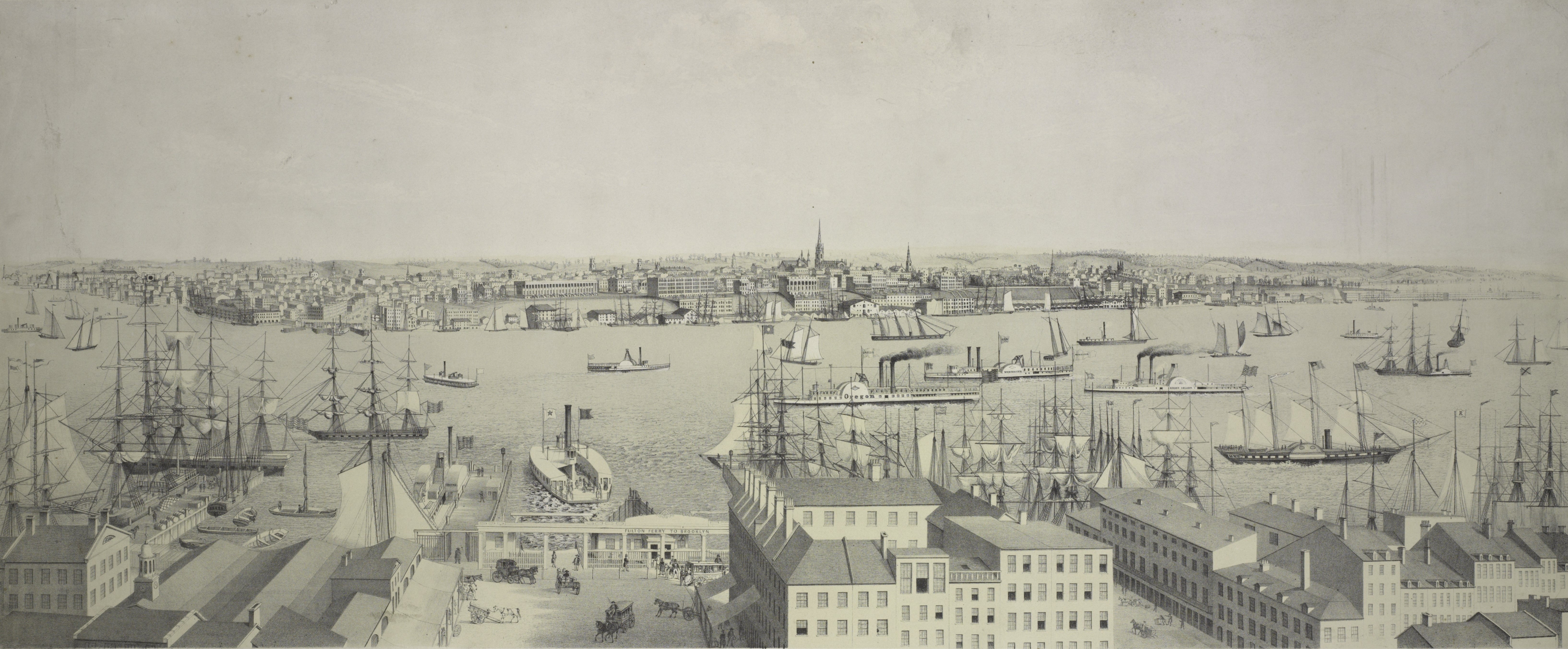 View of Brooklyn, L.I. From U.S. Hotel, New York (NYPL Hades-1803842-1659381) cropped version